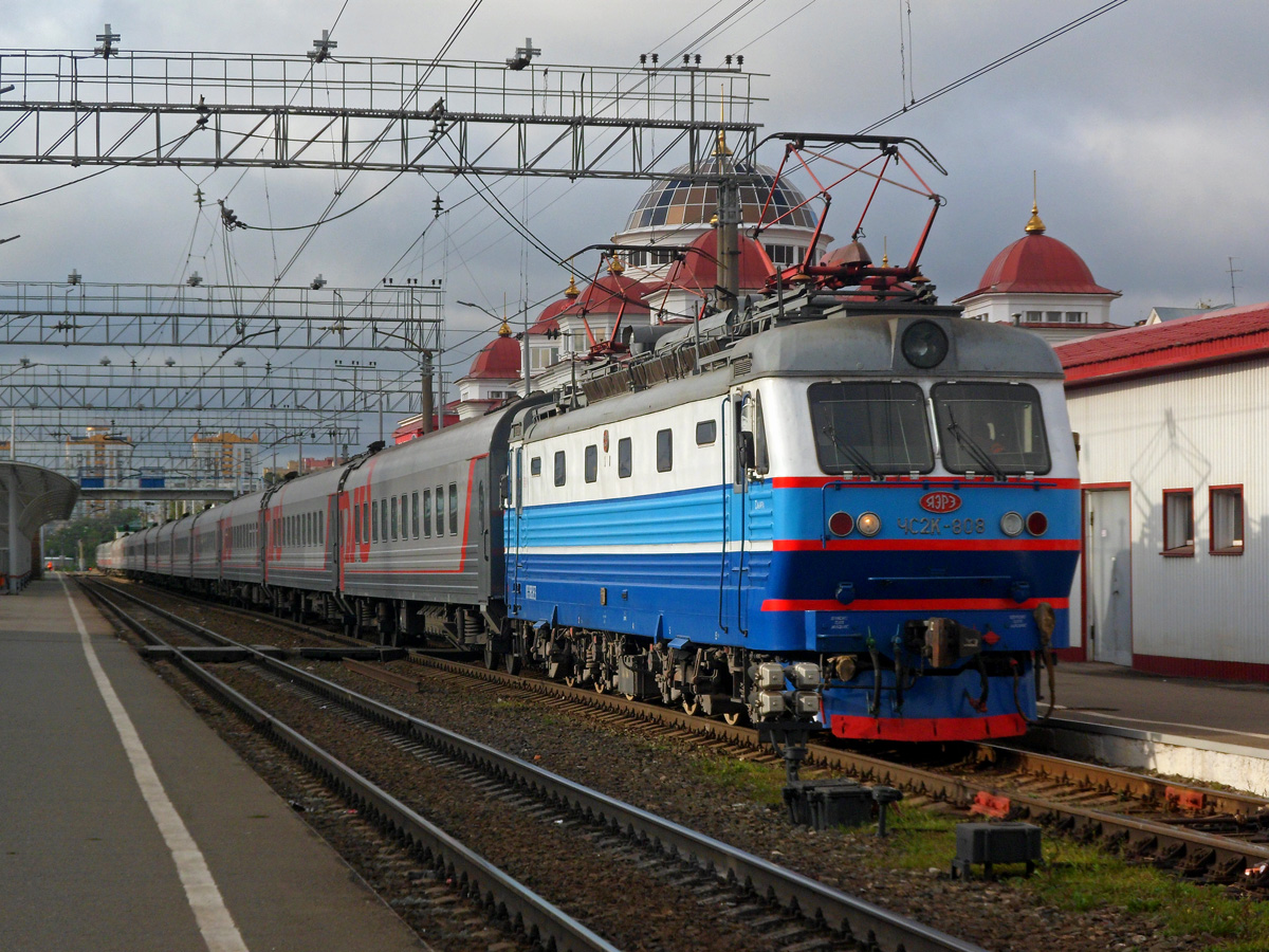 Electric locomotive ChS2K-808 with train number 42 "Mordovia" at the railway station Saransk-1.